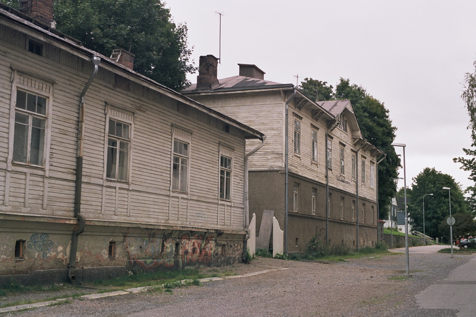 Buildings of the wooden city block of Annikinkatu in the Tammela district of the city of Tampere in Finland. The houses of the block were built in 1907–1909.